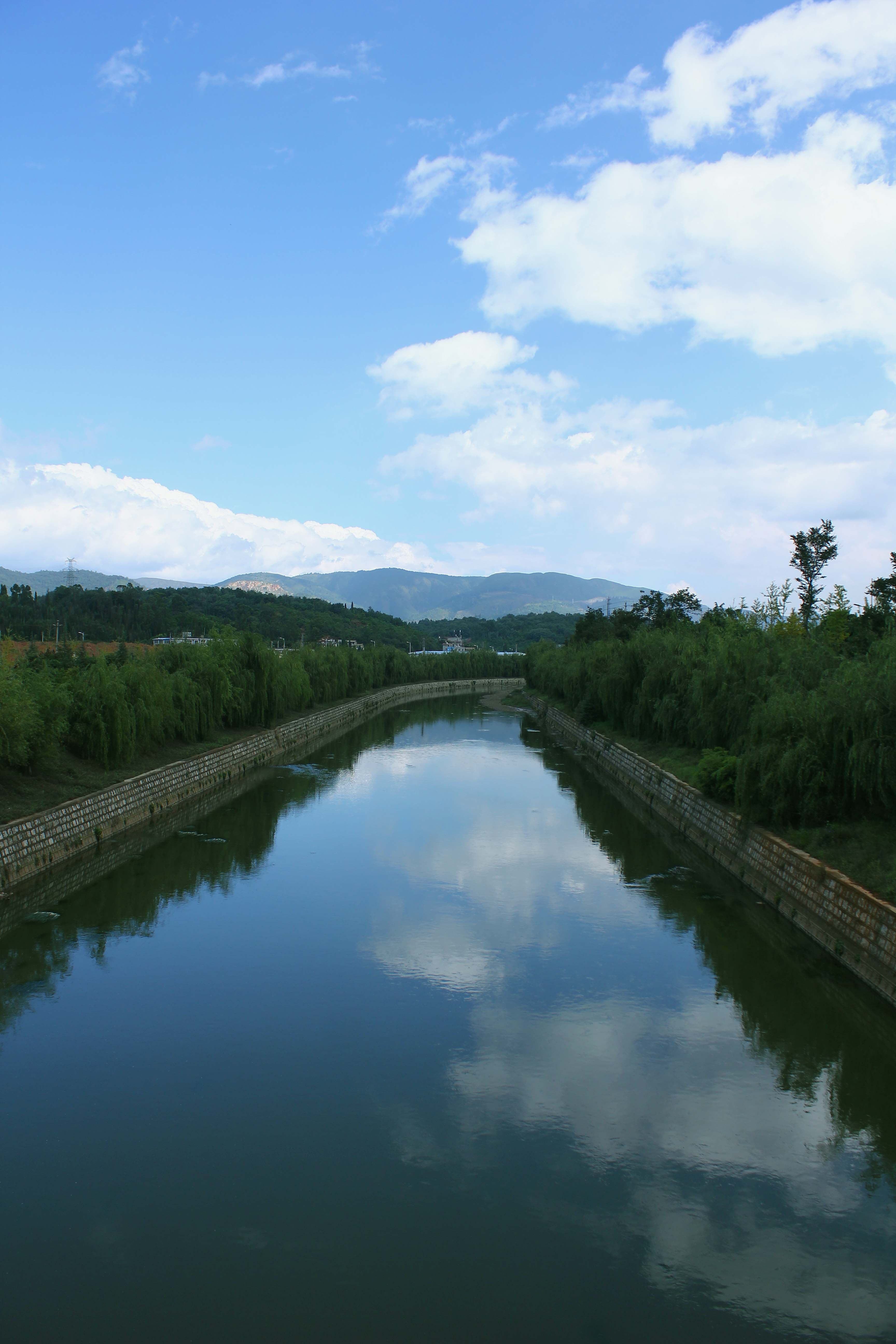 Tanglang River near Baita Village in Anning City of Yunnan Province in China。